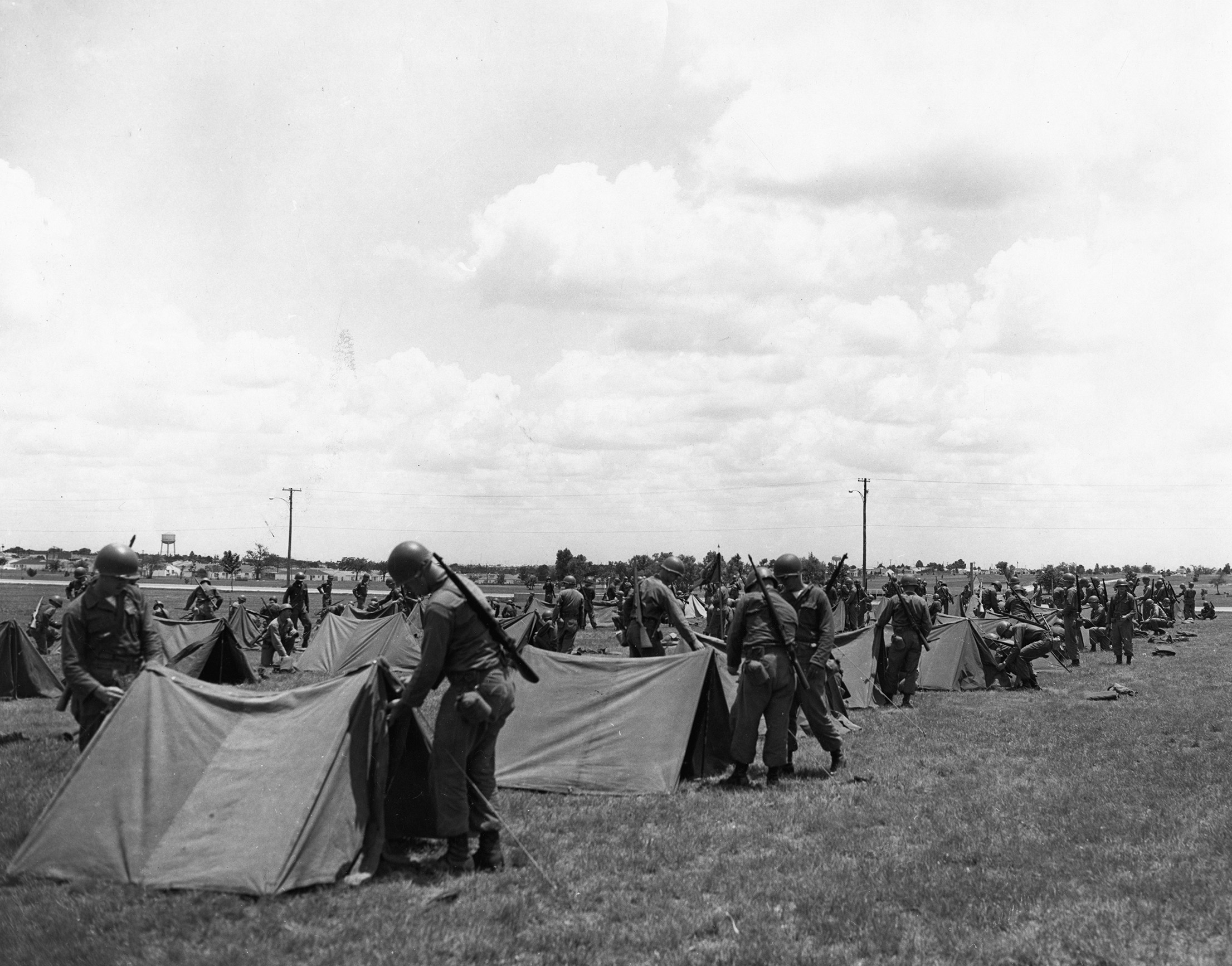 Arlington State College Reserve Officers' Training Corps students setting up pup tents during exercise on campus.